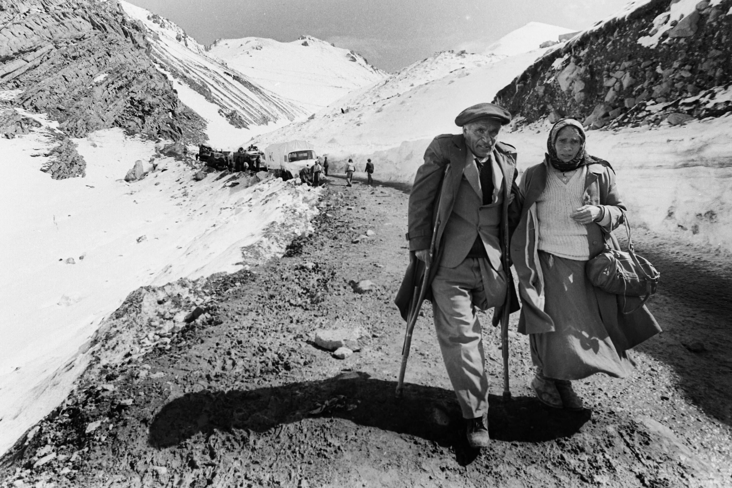 Azerbaijani refugees from Karabakh during the war